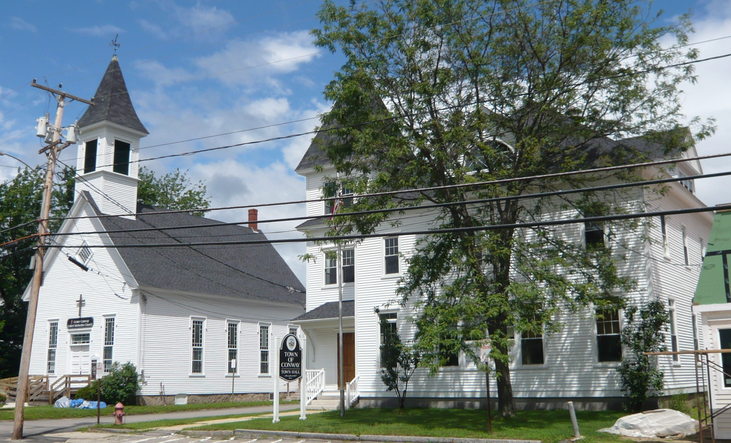 Town Hall (right), and United Methodist Church (left), in Center Conway, New Hampshire